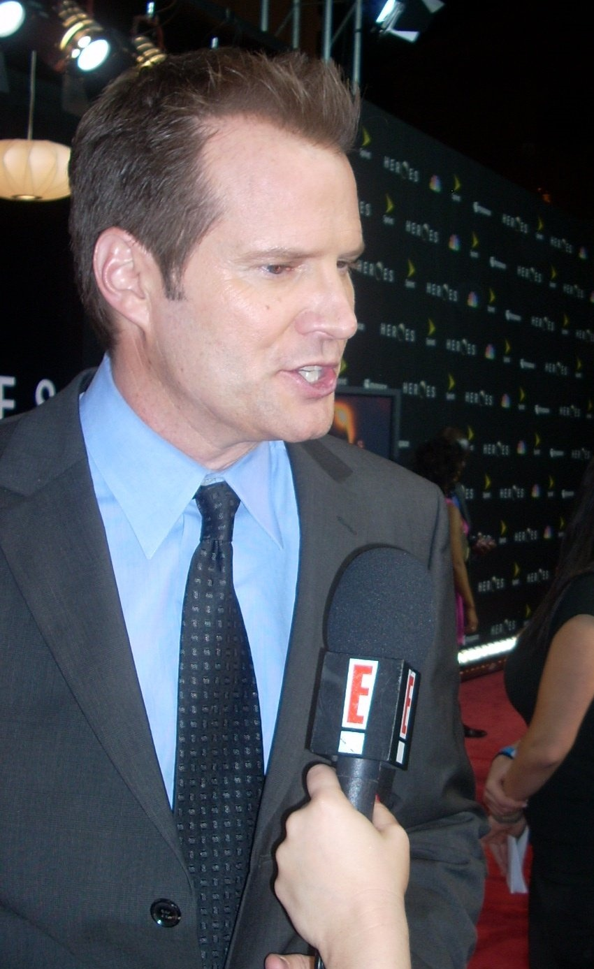 Jack Coleman, - "Heroes" Season Three Premiere Party, Edison L.A., Downtown Los Angeles - Sept. 7, 2008